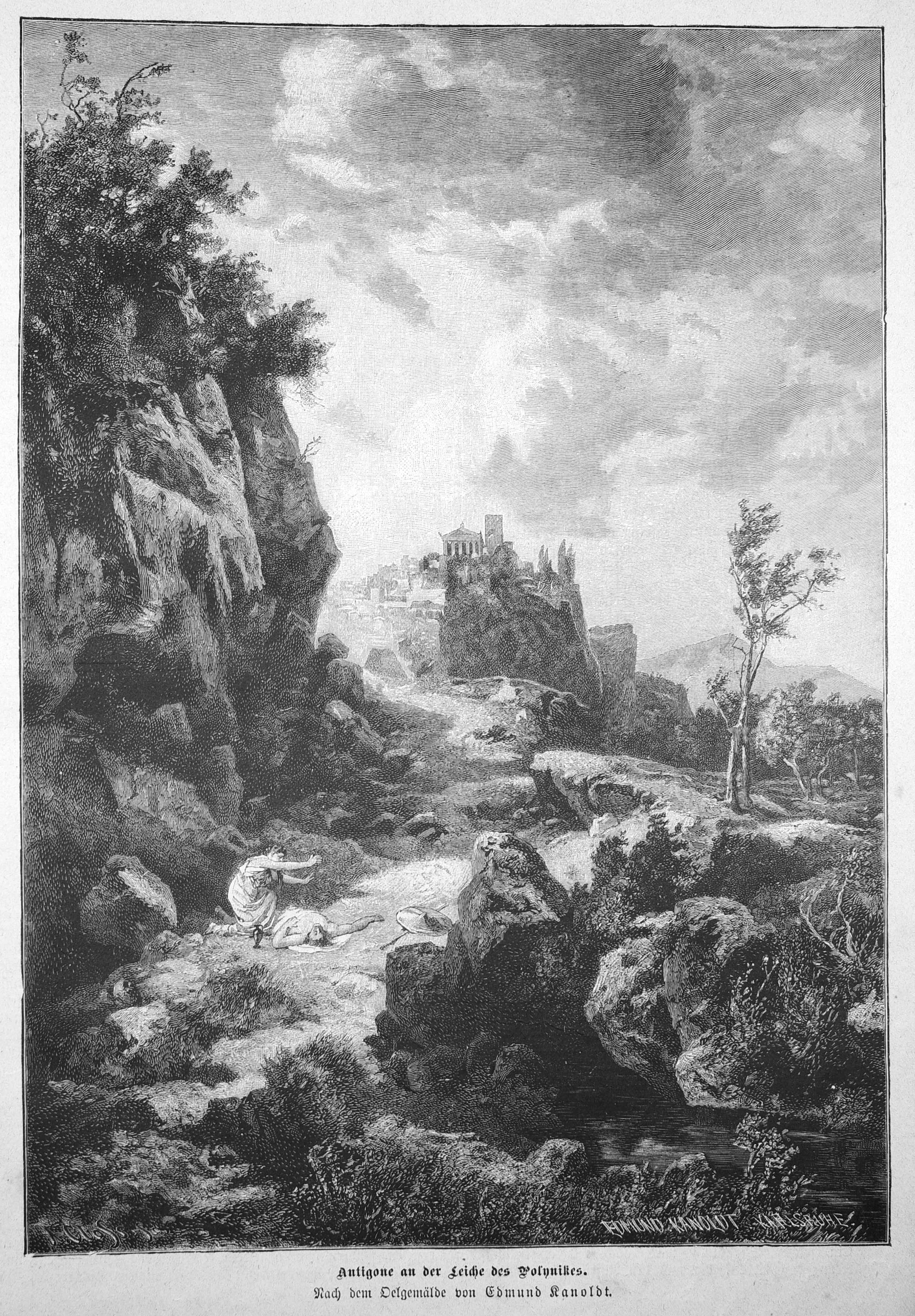 Page 4 from journal Die Gartenlaube for 1885.Extracted image (if any): File:Die Gartenlaube (1885) b 004.jpg - hi res, ~2.5 MB.